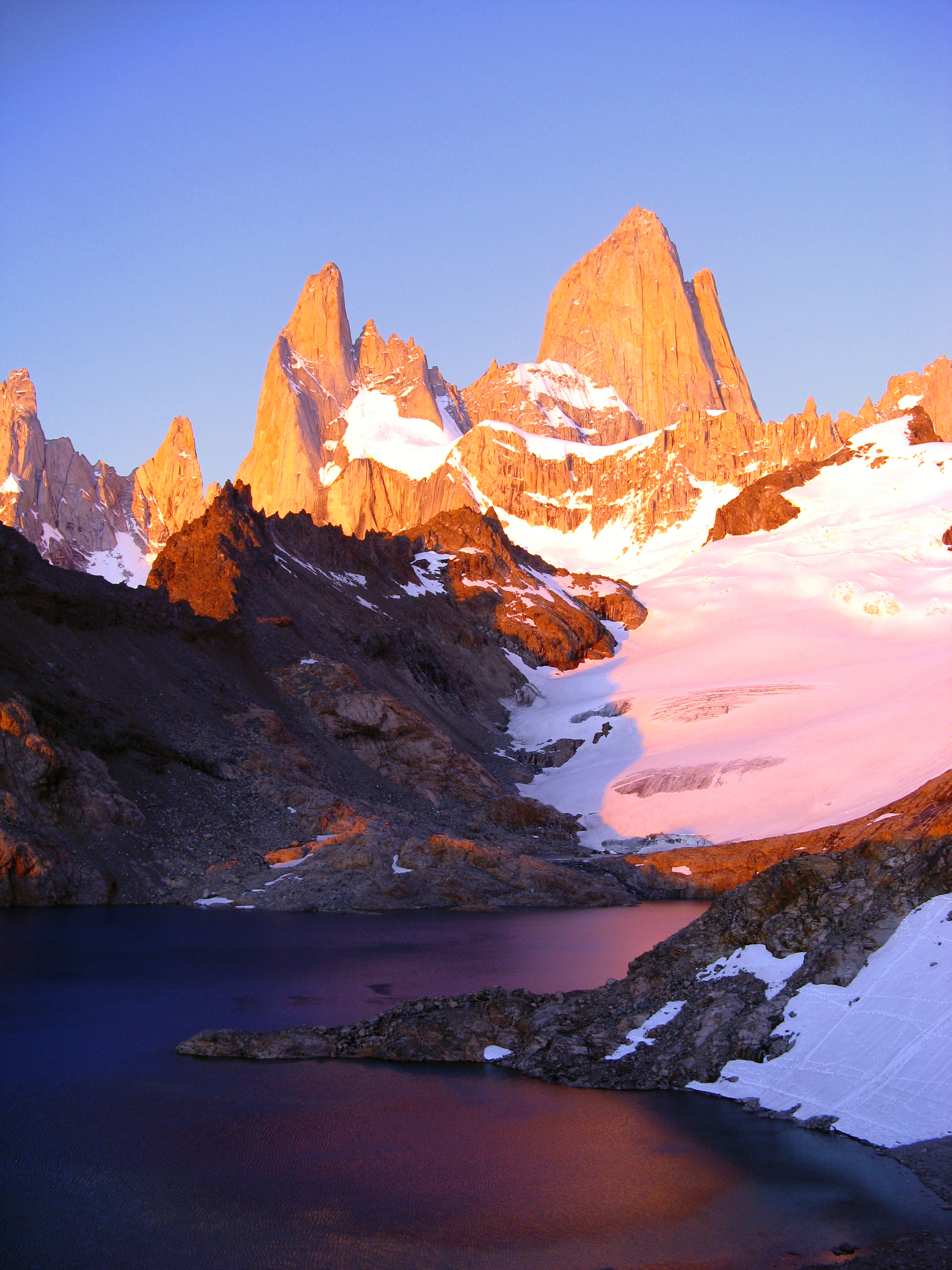 Cerro Fitz Roy at Sunrise